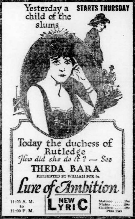 Newspaper ad for the American drama film The Lure of Ambition (1919) with Theda Bara, on page 13 of the February 11, 1920 Duluth Herald.